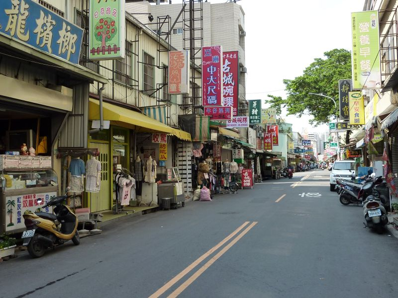 Tainan Old City